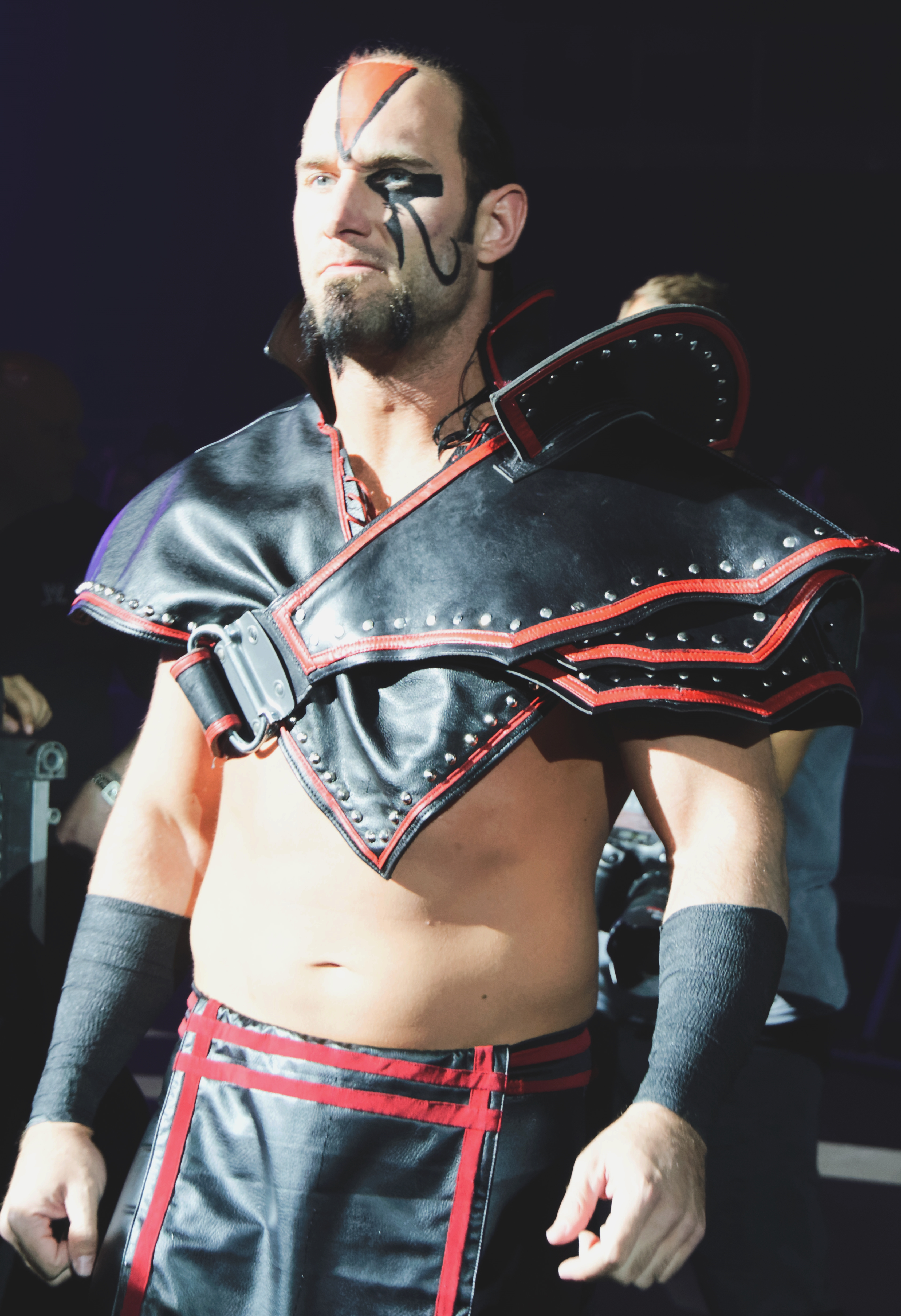 Viktor at a WWE live event in April 2015.